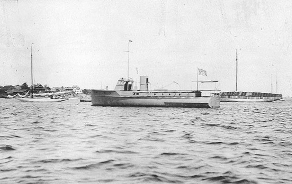 Photo #: NH 101581 Daiquiri (American Motor Boat, 1917) Anchored in a harbor, prior to her World War I Navy service. Known initially as Herreshoff Hull 317, this pleasure craft was taken over by the Navy on 17 September 1917 and placed in commission as USS Daiquiri (SP-1285) on 2 October 1917. She was sold on 10 March 1920. The original print is in National Archives' Record Group 19-LCM. U.S. Naval Historical Center Photograph.